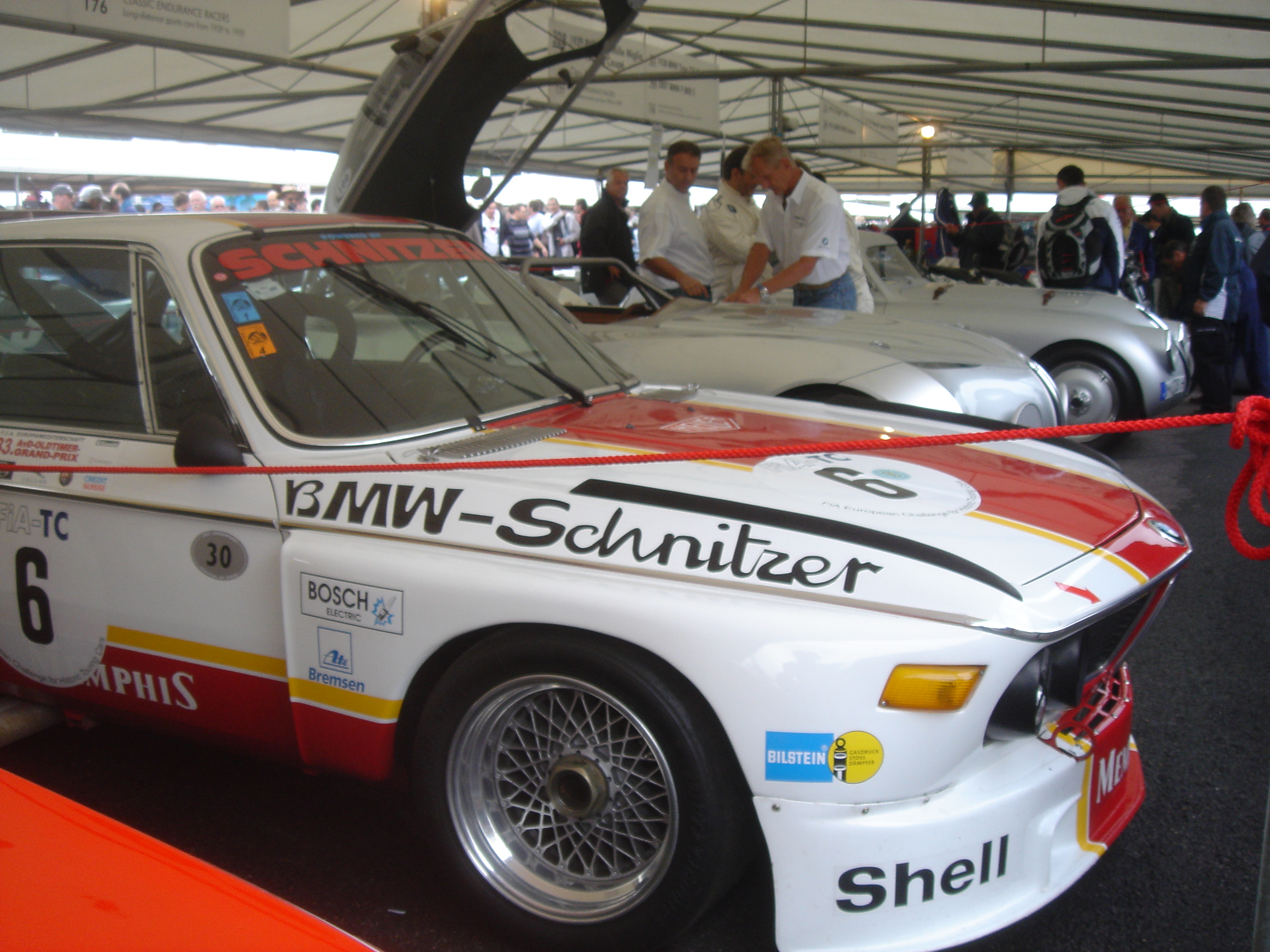 Goodwood Festival of Speed 2007 - Schnitzer BMW 3.0 CSL in F1 paddock